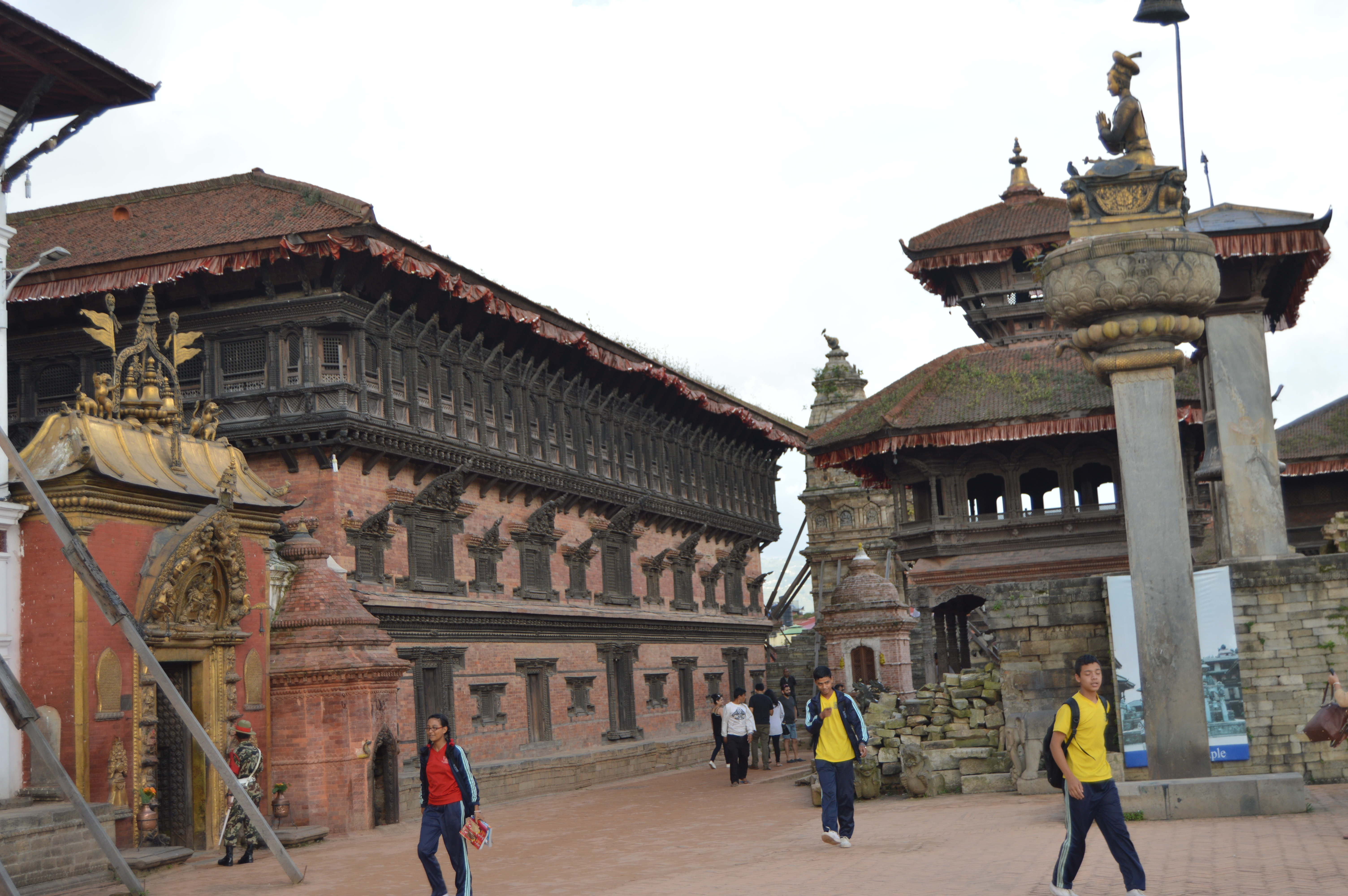 Bhaktapur Darbar